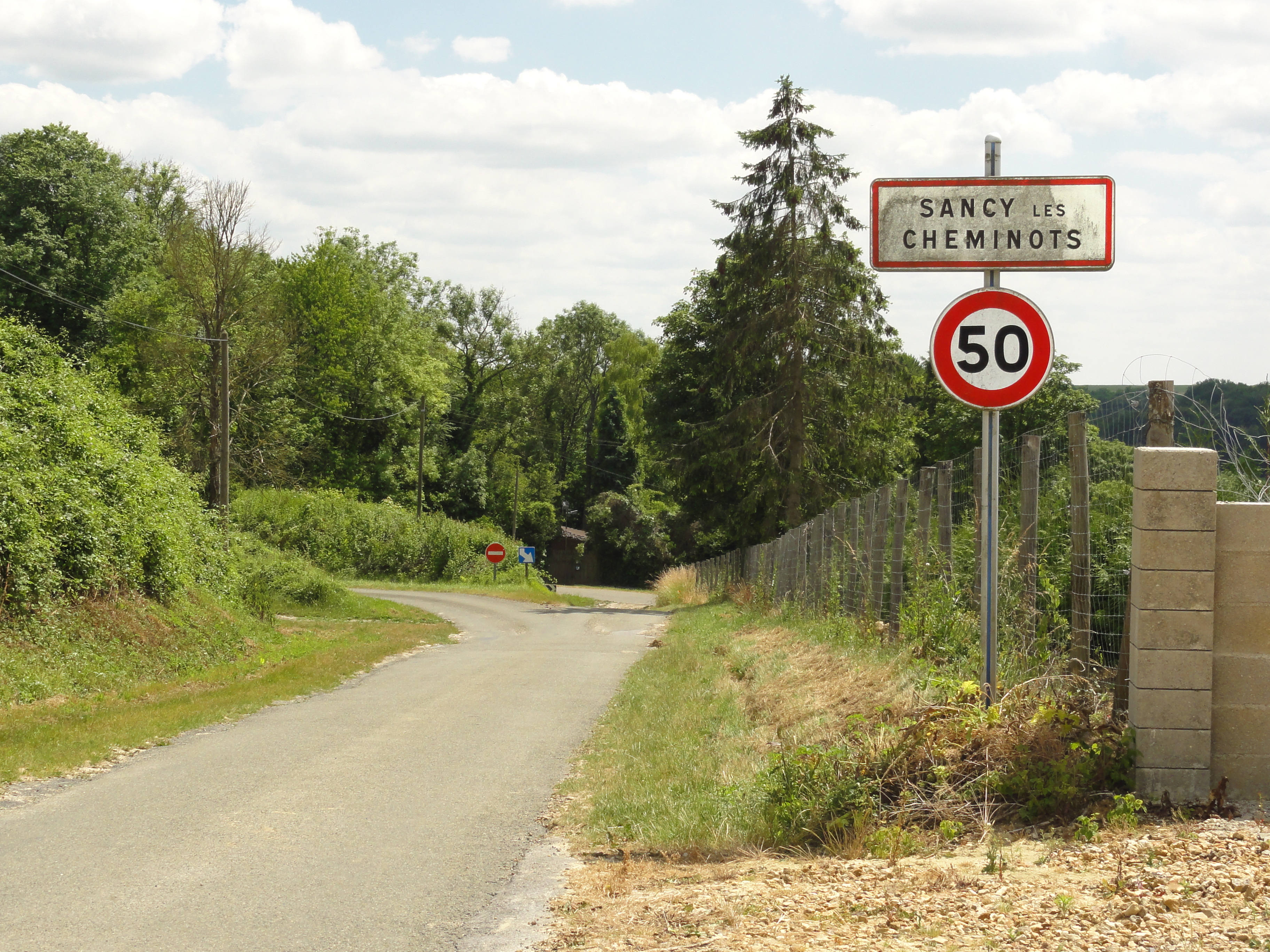 Sancy-les-Cheminots (Aisne) city limit sign